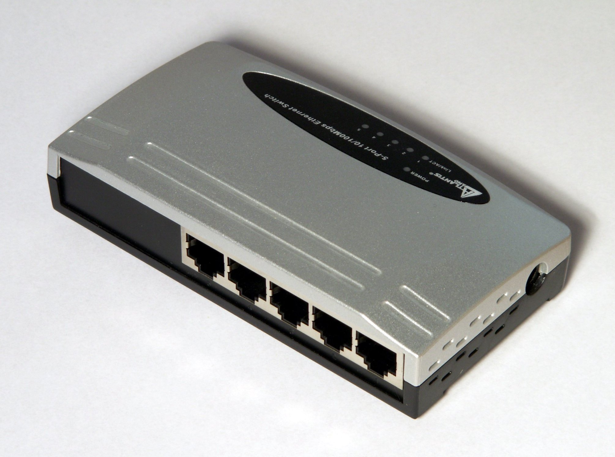 Ethernet switch Atlantis A02-F5P 5 ports backend